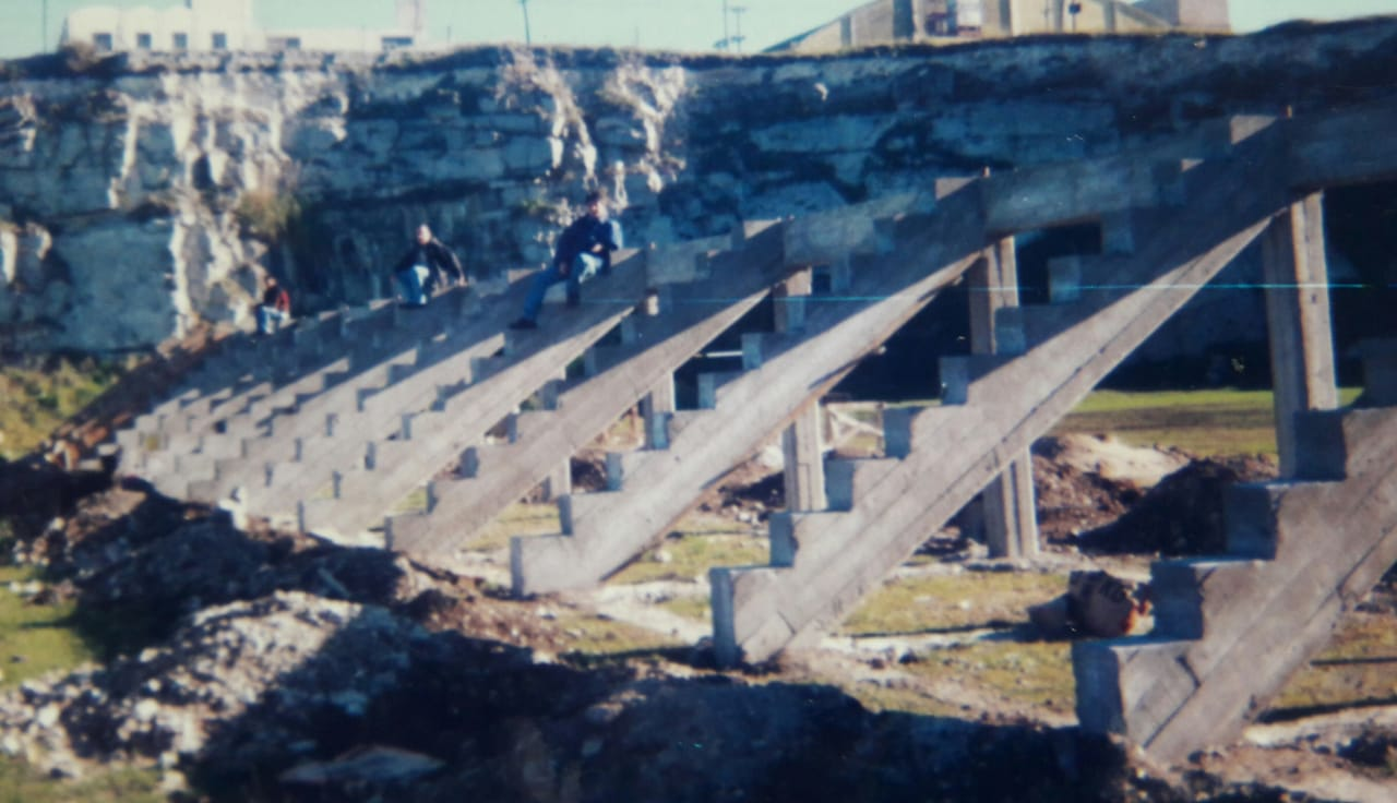 Estadio aldosivi